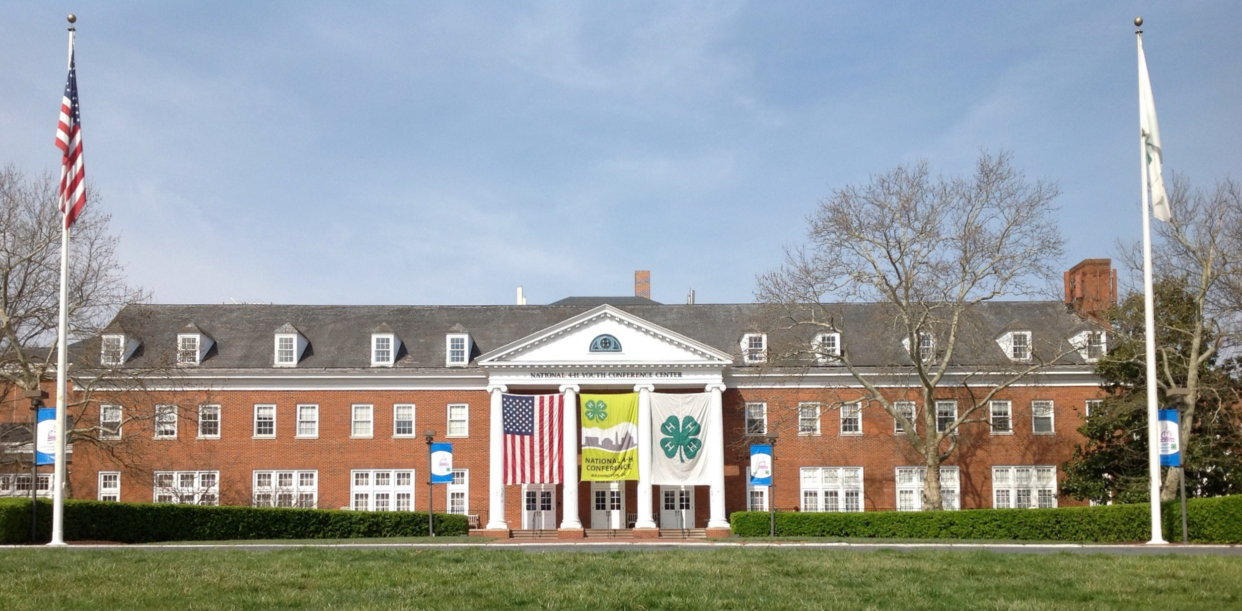 National 4-H Youth Conference Center where Agriculture Secretary Tom Vilsack spoke with National Youth Leadership, on Monday, April 8, 2013, in Chevy Chase, MD. USDA Photo by Lance Cheung.